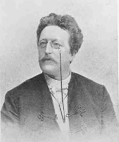 Jan Dobruský – chess player and composer